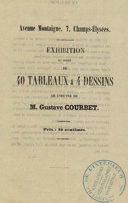 Front cover of Exhibition et vente de 40 tableaux et 4 dessins de l'œuvre de Gustave Courbet, from a 4 pages catalogue printed in Paris by Morris & Cie and sold 10 centimes. This is the official document made by Courbet for his famous exhibition in the marge of the Exposition Universelle, and located 7 Avenue Montaigne (Champs-Elysées).